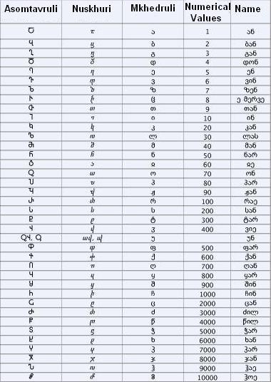 Georgian alphabet: the three forms and numerical values